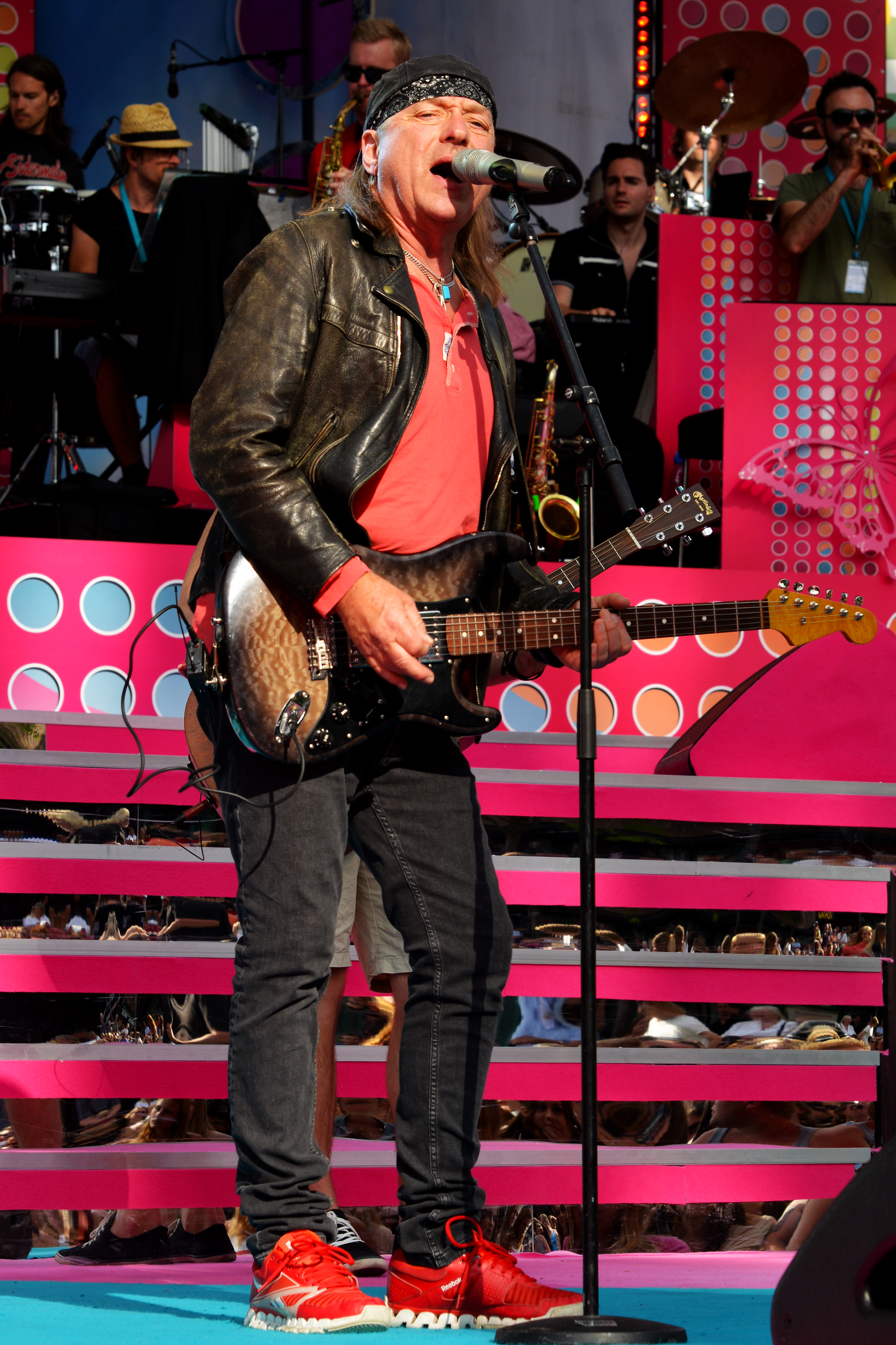 Pugh Rogefeldt visiting Sommarkrysset at Gröna Lund, Stockholm